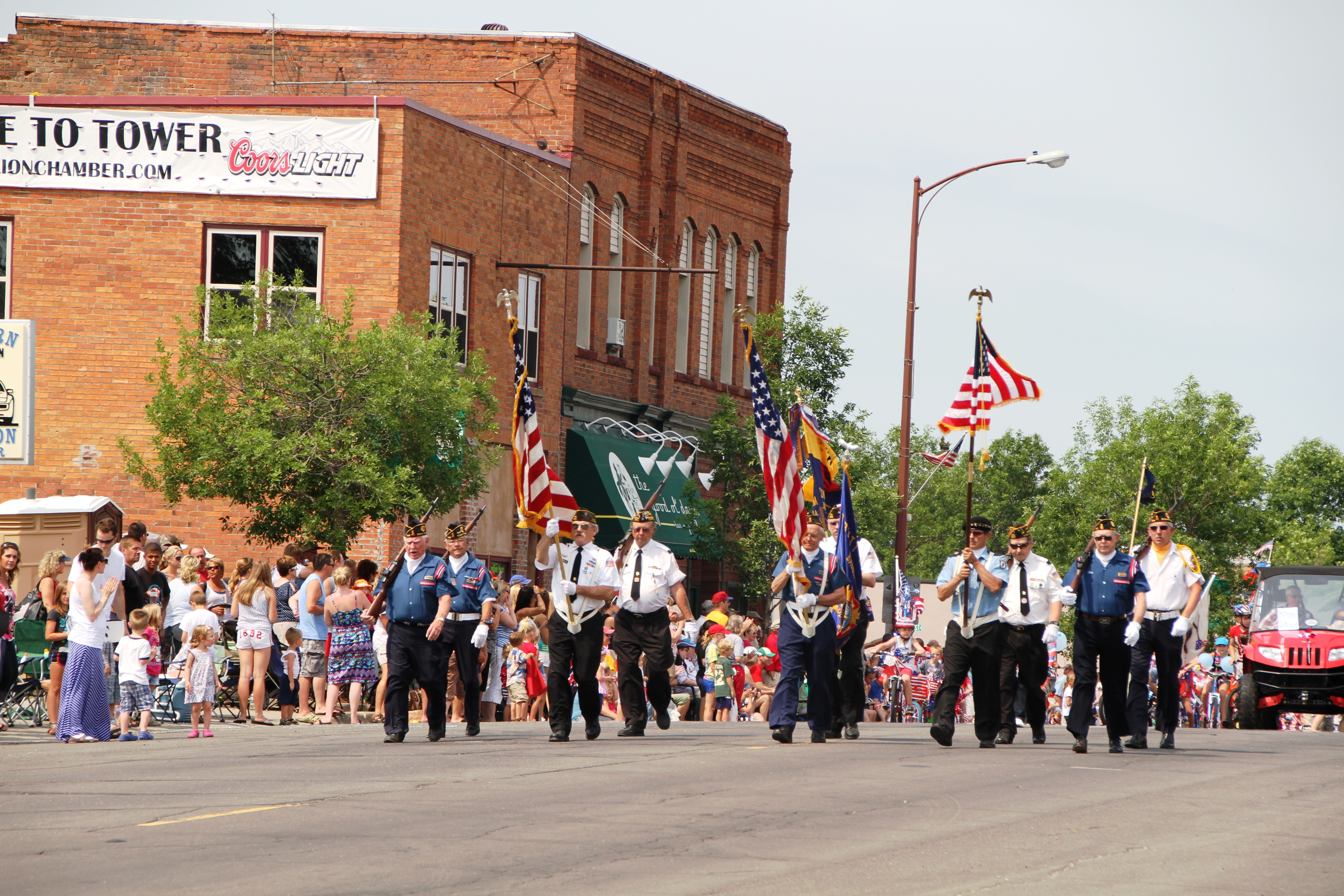 4th of July in Tower, Minnesota